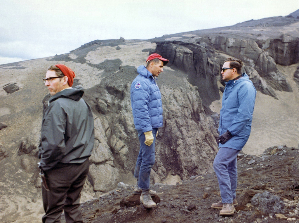 Geology training in Iceland. An astronaut and two instuctors stand on rocky ledge during a geological field trip to the Dragon Canyon area of North Iceland. Left to right are: Icelandic geologist Sigurður Þórarinsson, Astronaut William A. Anders and Dr. Ted Foss, Chief of Geology and Geochemistry Branch, Lunar and Earth Sciences Division, Manned Spacecraft Center. (NASA Image S-67-37676)